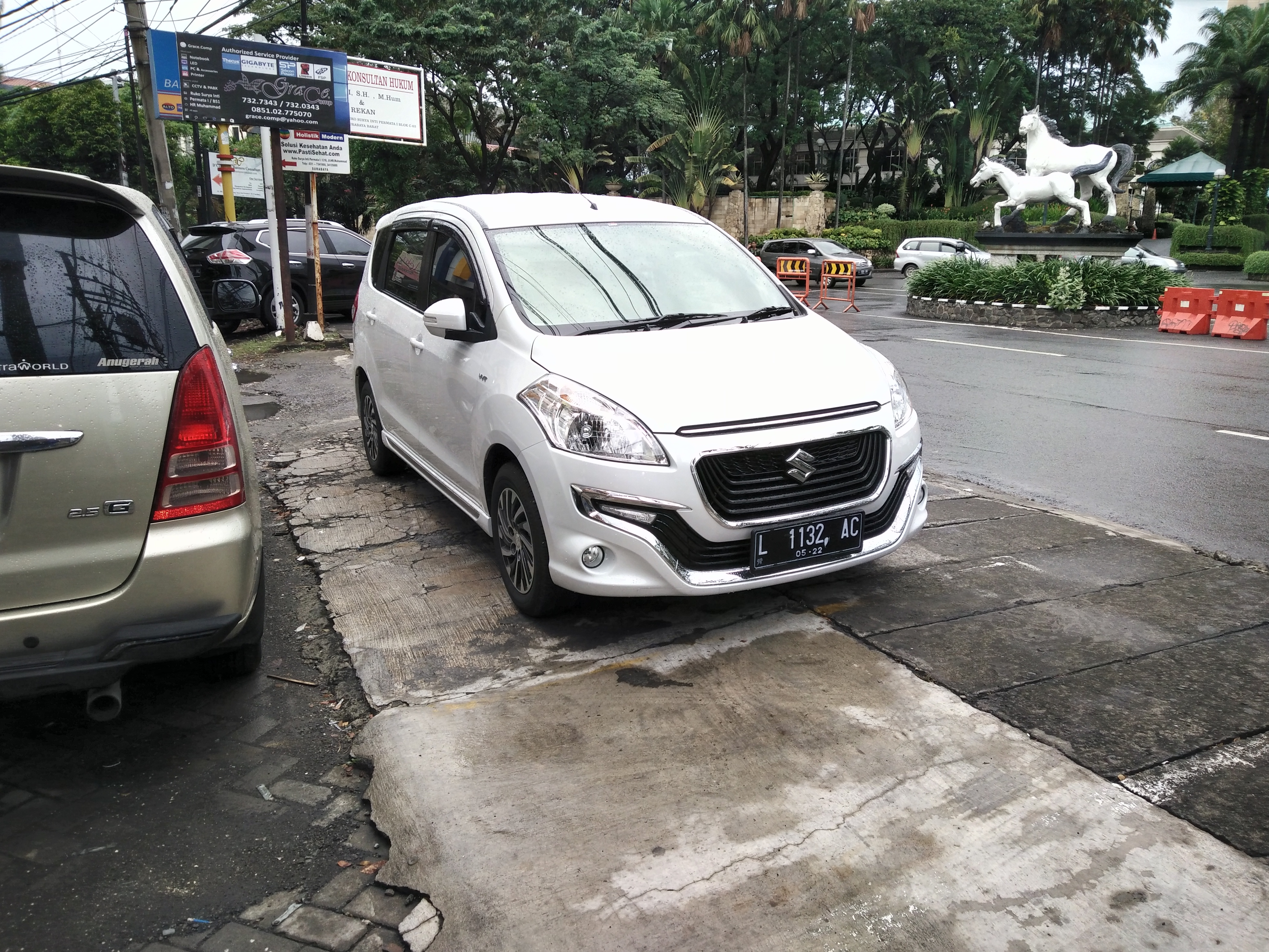 2017 Suzuki Ertiga Dreza photographed in West Surabaya, East Java, Indonesia.